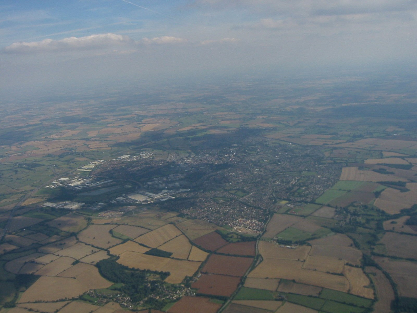 Banbury (Oxfordshire, UK) from about 3000ft, from the northwest.